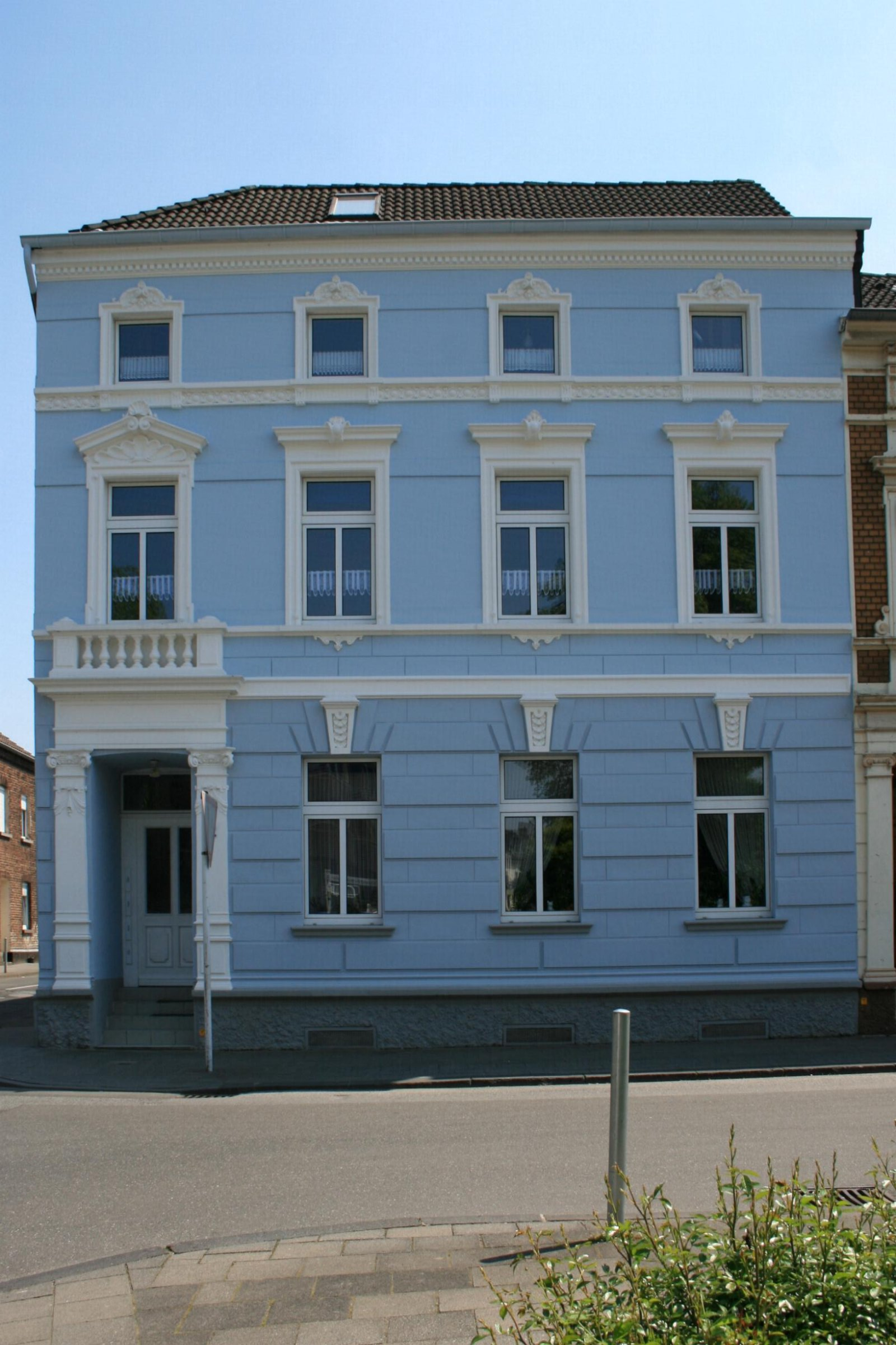 Cultural heritage monument No. Sch 011 in Mönchengladbach